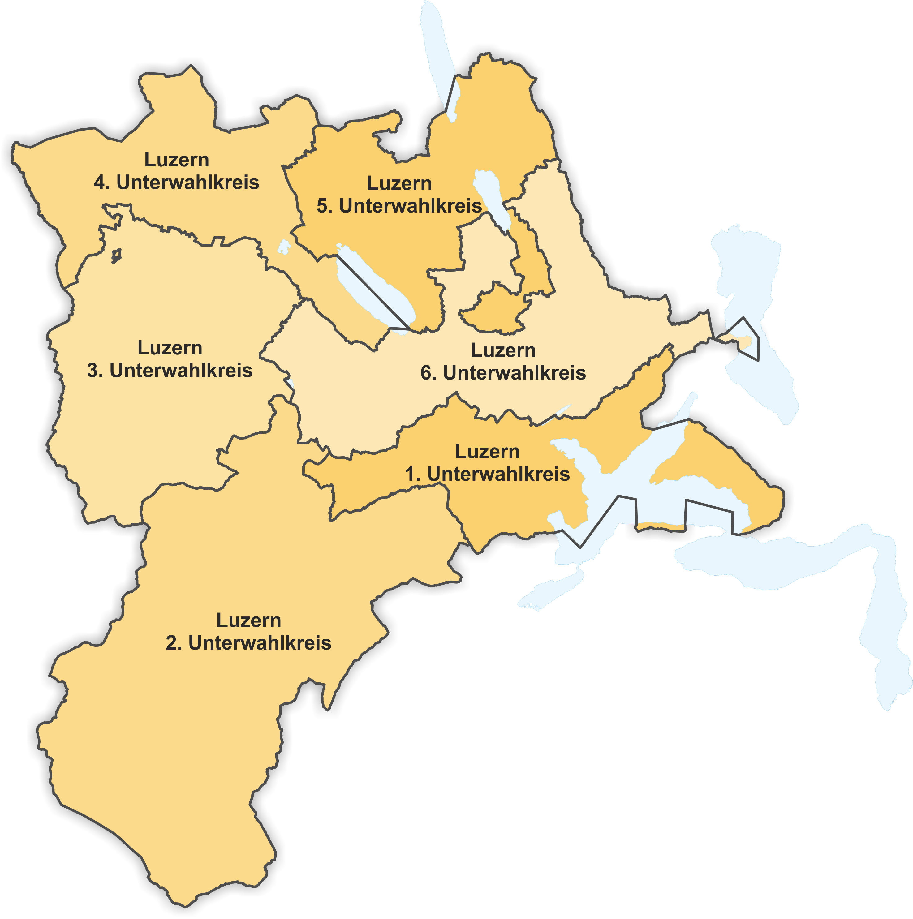 National council constituencies in the canton of Lucerne in 1848